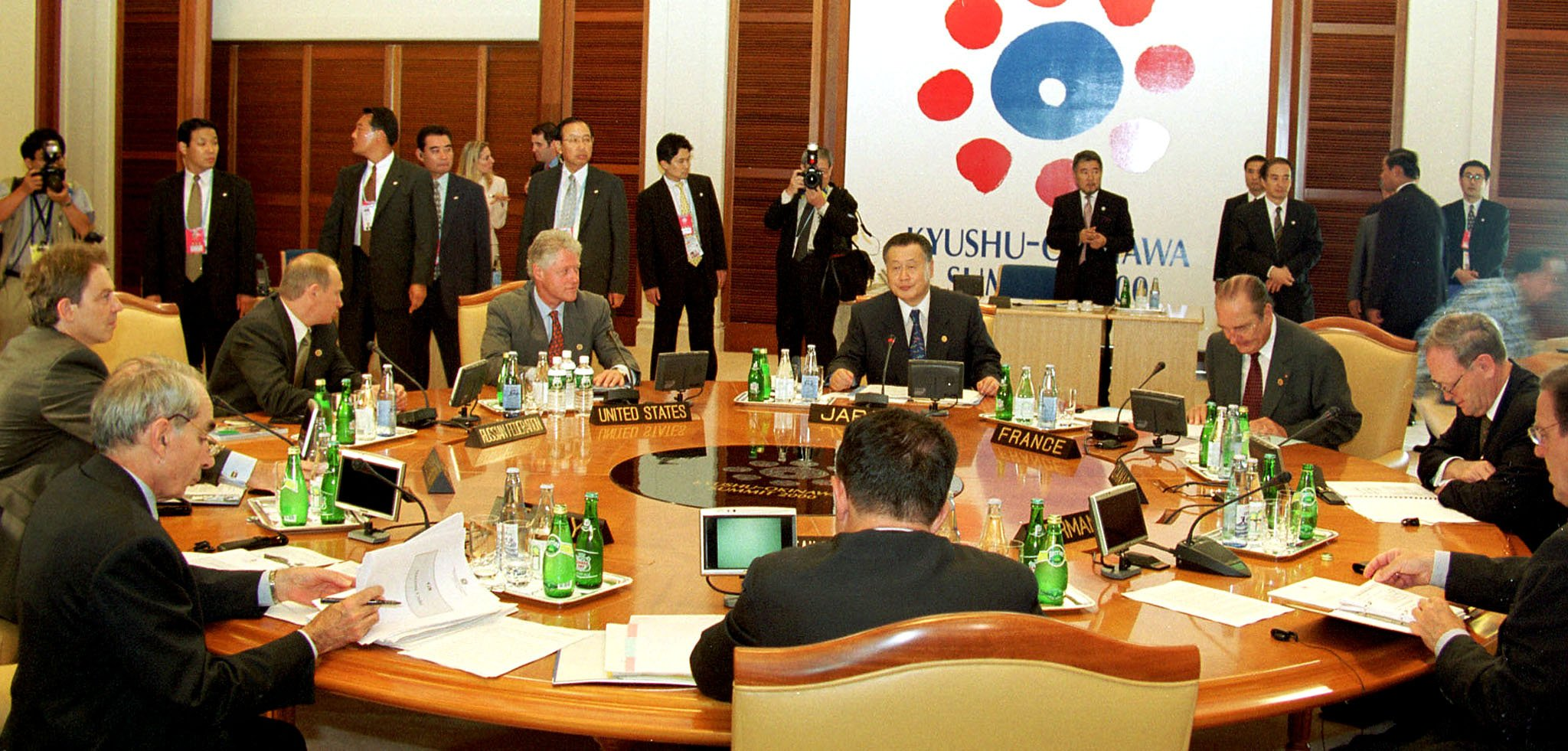 OKINAWA, JAPAN. Meeting of G8 heads of state and government.